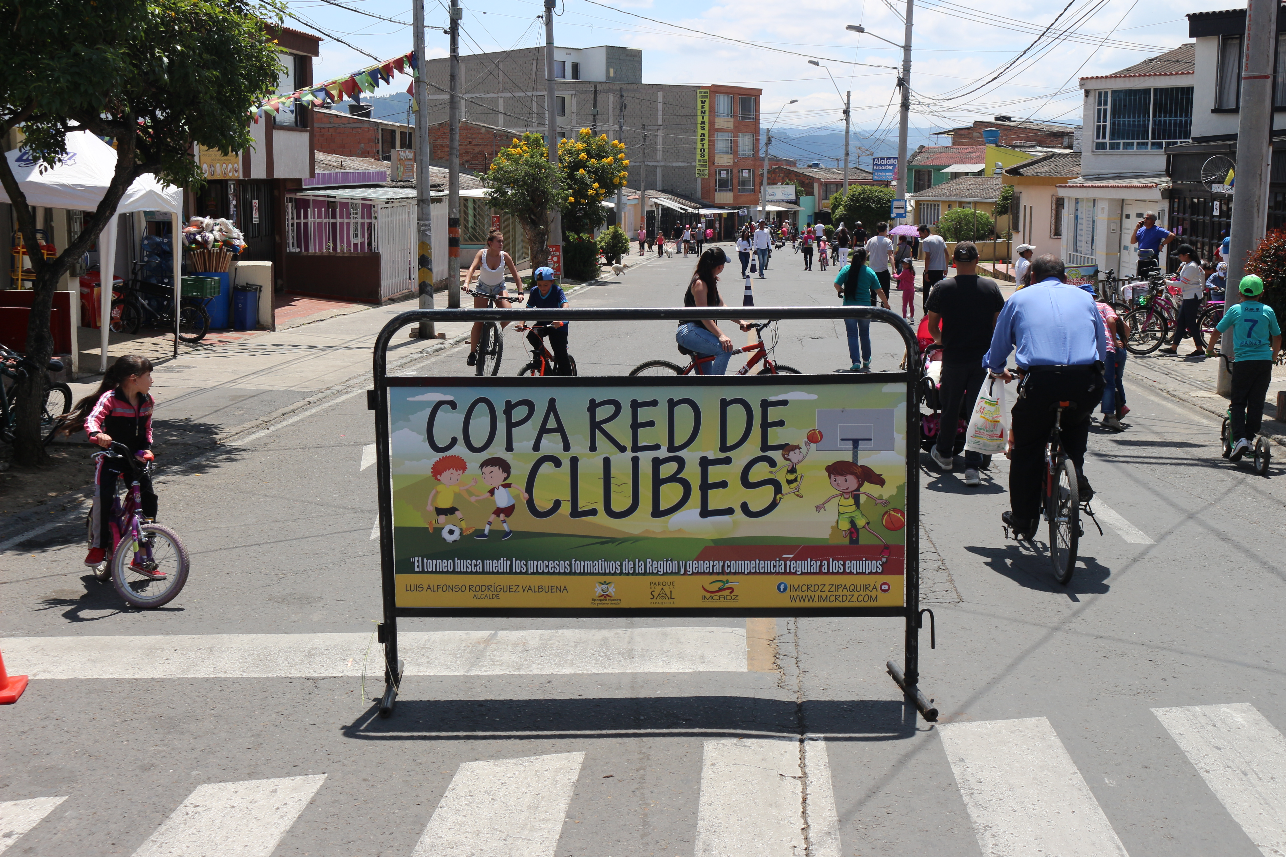 CicloVida